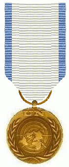 MINURSO Medal of the UN